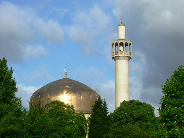 Central London Mosque Taken from inside Regent's Park